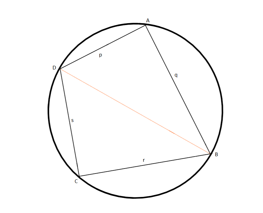 Sketch of proofing Brahmagupta's formula